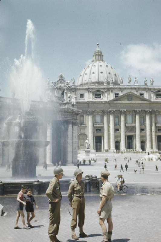 Allied Forces in Rome, June 1944 Two American soldiers talking to a British soldier beside one of the fountains in St Peter's Square. In the background is the Cathedral.